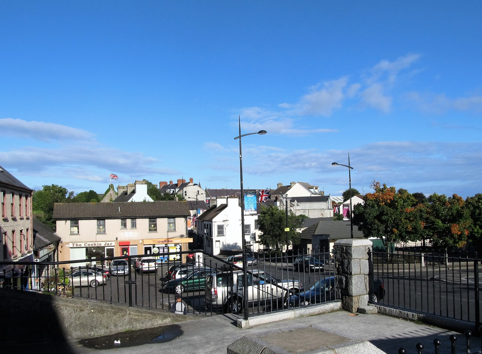 Bridge Street, Kilkeel